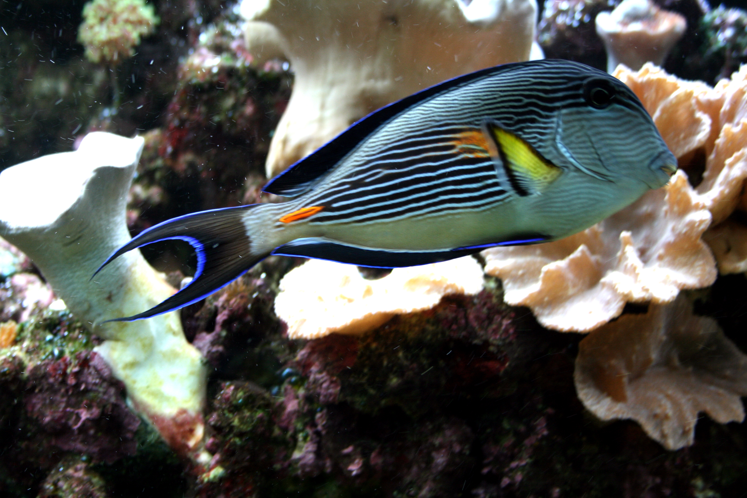 Fish Sohal surgeonfish, Acanthurus sohal in Prague sea aquarium, Czech Republic